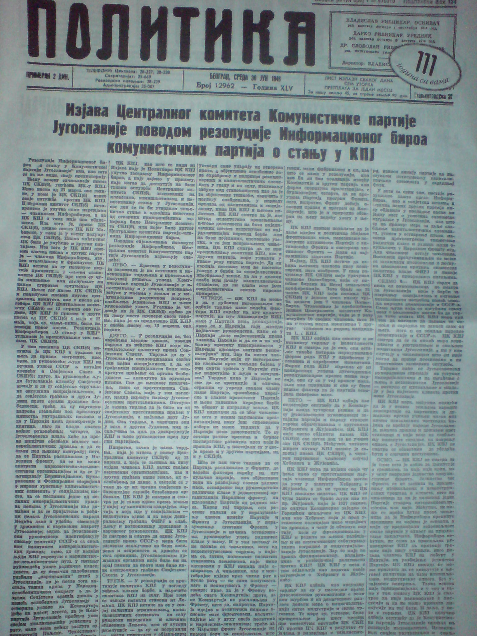 Politika 30 jun 1948